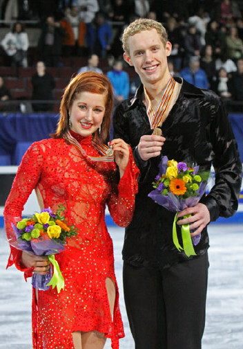 Emily Samuelson & Evan Bates (USA) during the ice dancing medals ceremony at the 2009 Four Continents Championships. They won the bronze medal at this event.